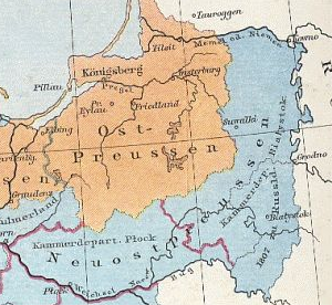 New Eastprussia, 1806